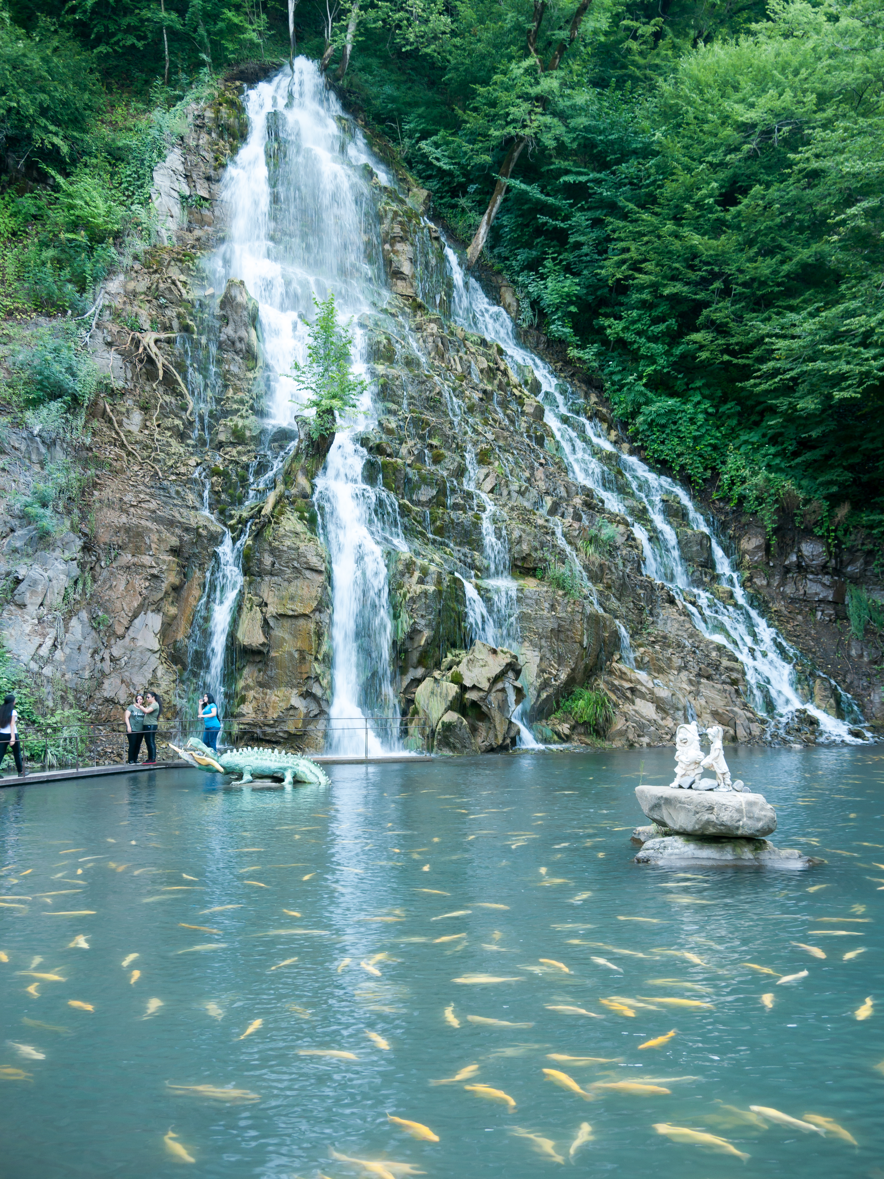 Khalkhal